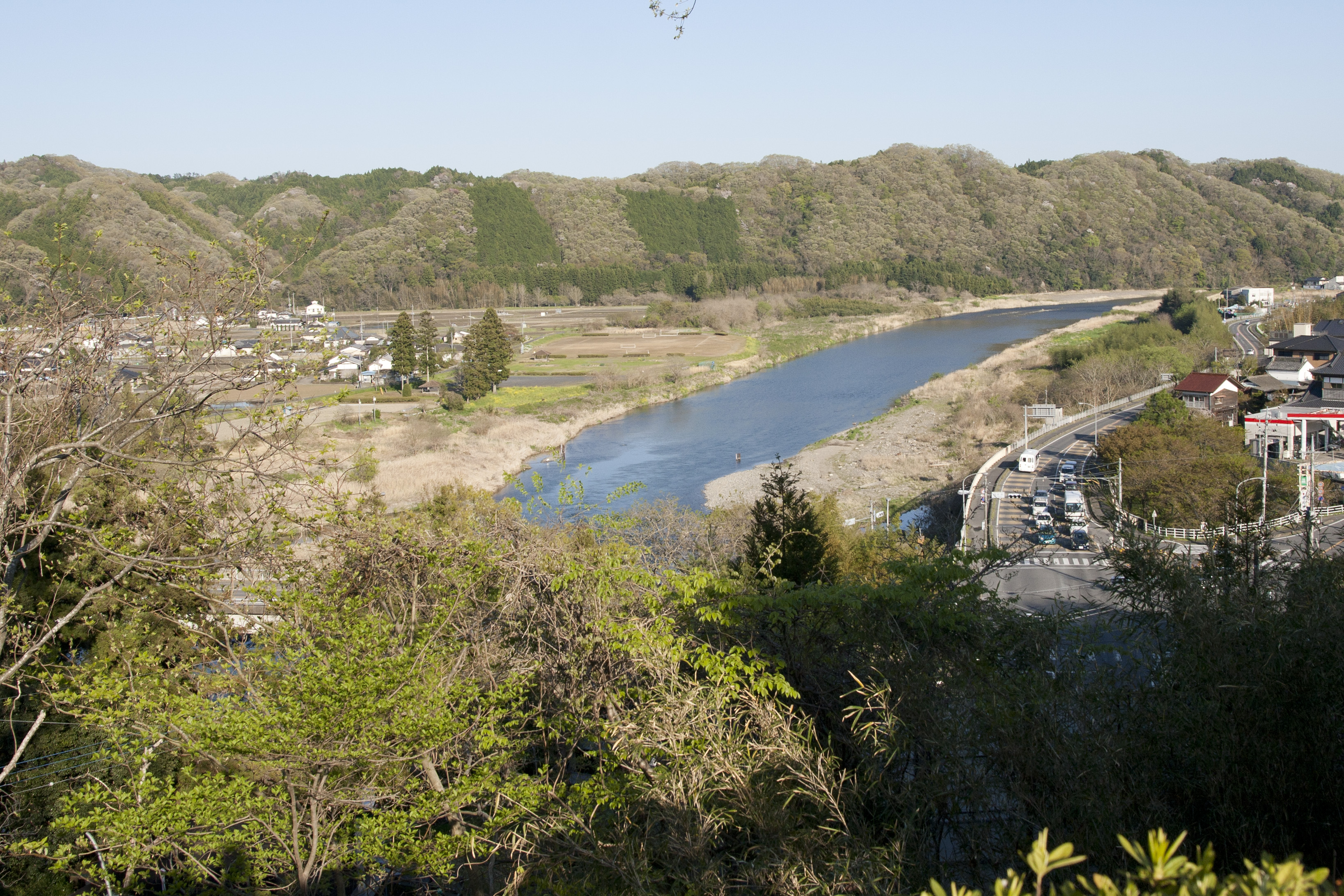 Kuji river, Hitachi-Omiya City, Ibaraki Prefecture, Japan.